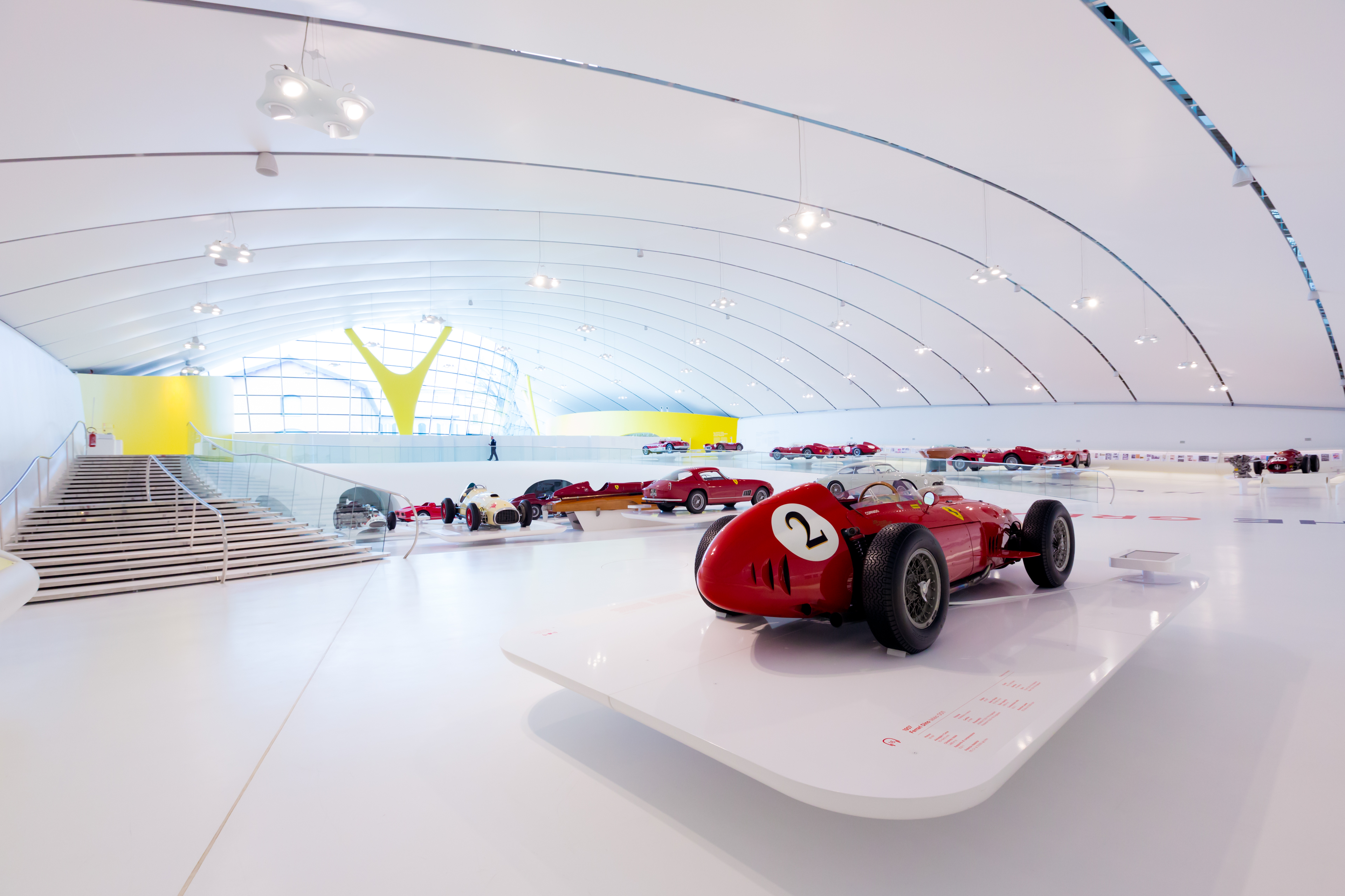 Interior